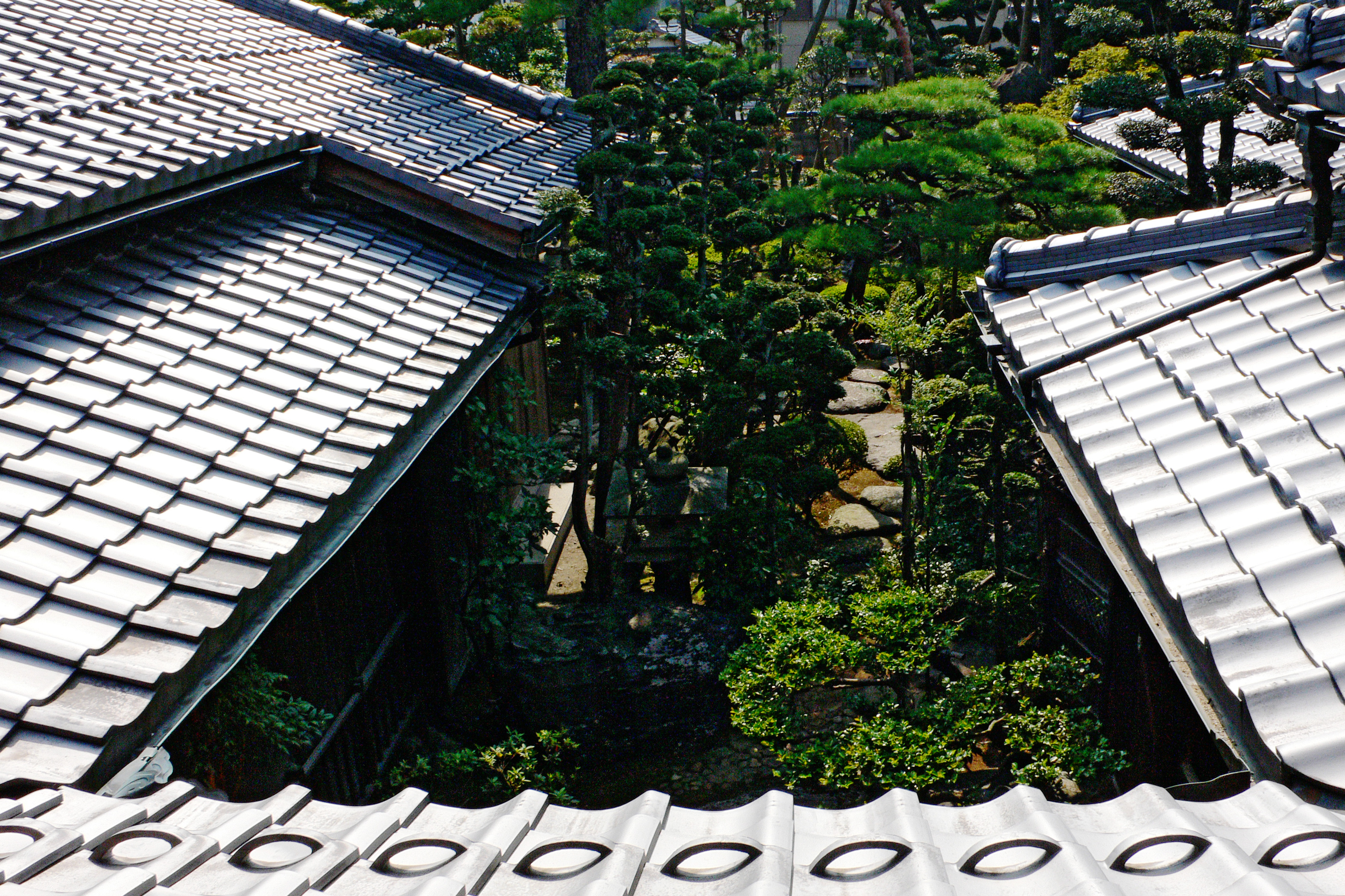 Kitagunikaido Ando House in Nagahama, Shiga prefecture, Japan